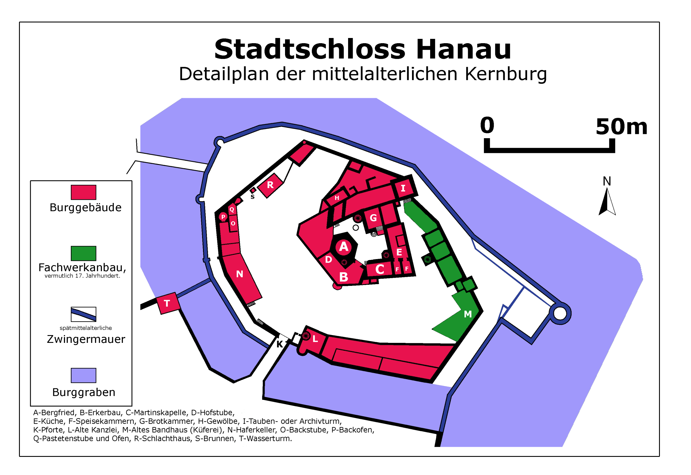 Plan of the medieval castle Hanau.